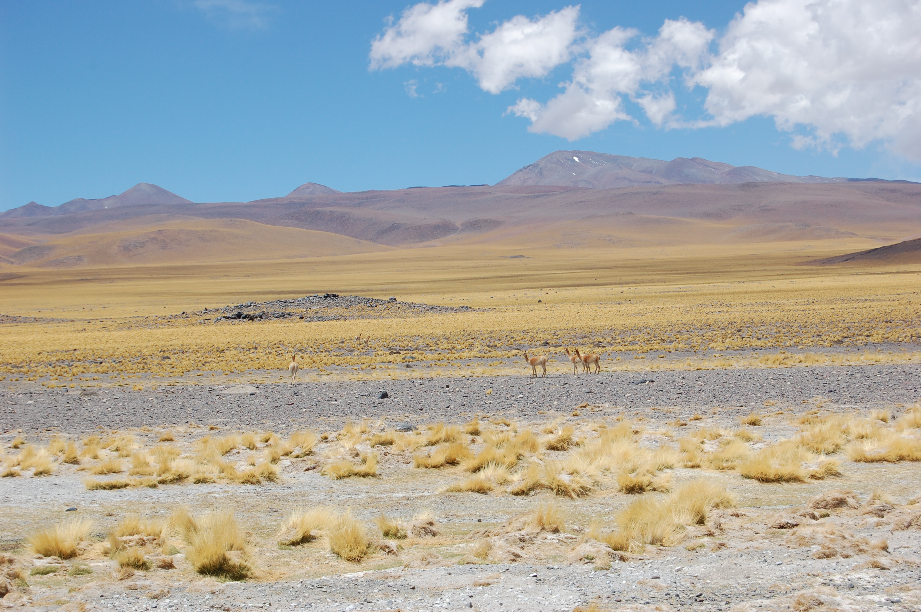 Route N 60 from Fiambala to Paso san Francisco.